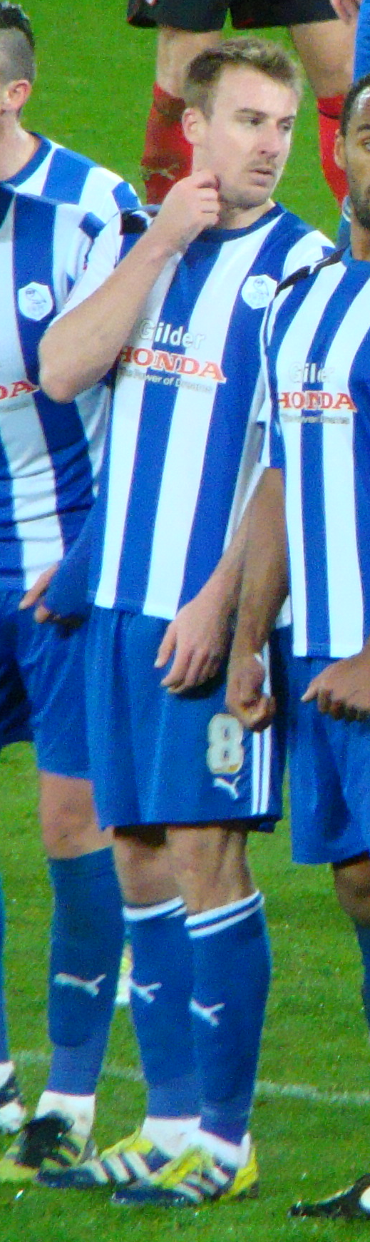 Chris Lines. Image cropped from original at flickr.